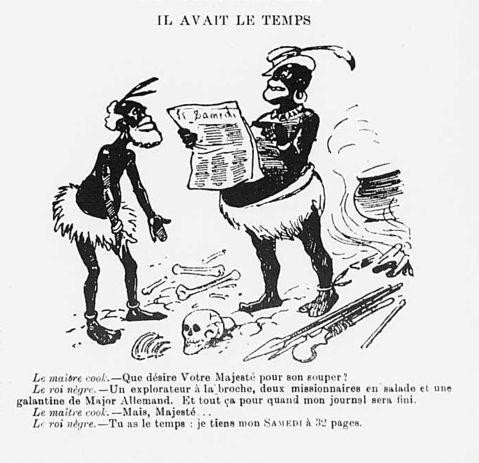 Racist portrayal of two native Africans one of which is the master cook and the other one is the nigger king. The latter read a copy of Le Samedi while standing in front of a cooking pot.